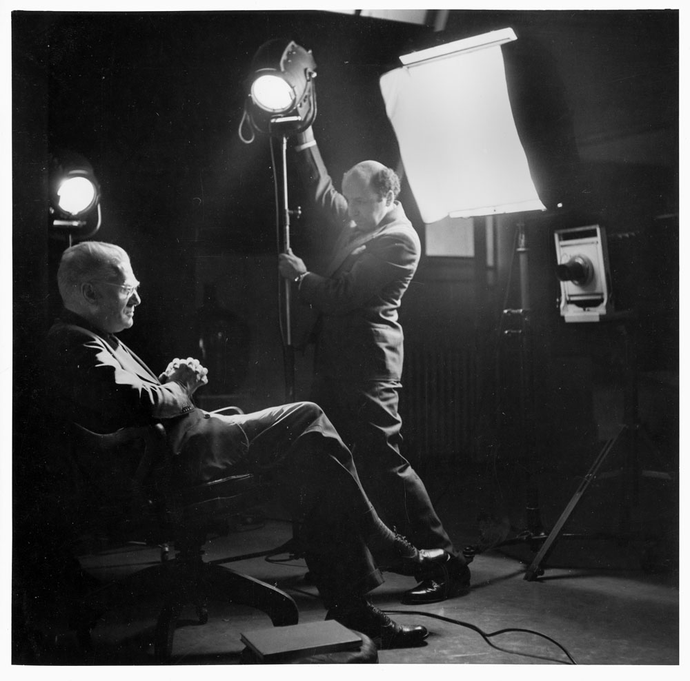 Title / Titre : Yousuf Karsh in studio / Yousuf Karsh dans un studio Creator(s) / Créateur(s) : Yousuf Karsh Date(s) : Unknown / Inconnu Reference No. / Numéro de référence : MIKAN 3613575 Location / Lieu : Unknown / Inconnu Credit / Mention de source : Yousuf Karsh. Library and Archives Canada, e003895088 / Yousuf Karsh. Bibliothèque et Archives e003895088